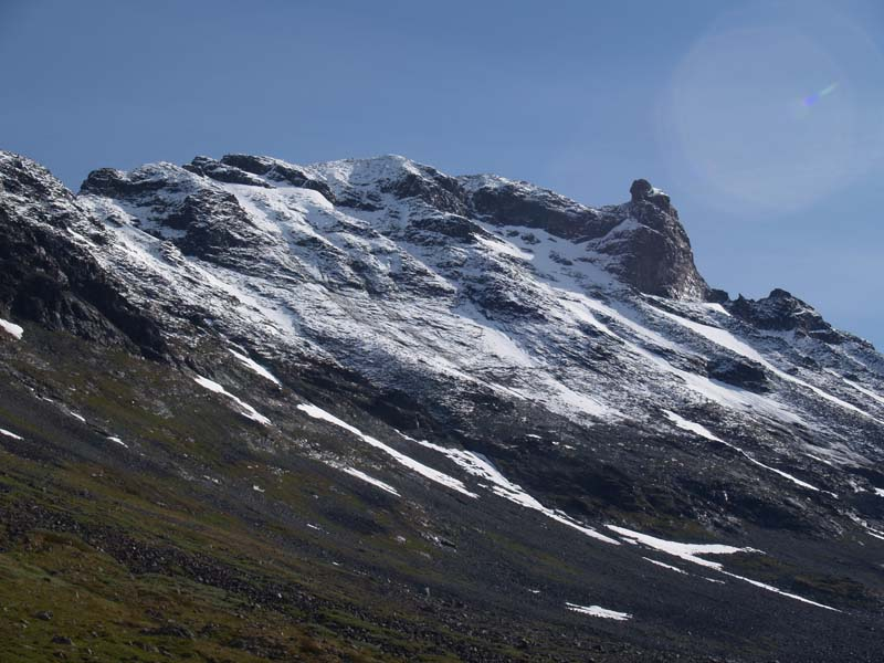 Photo shot August 2005 - Skarstind seen from the southwest